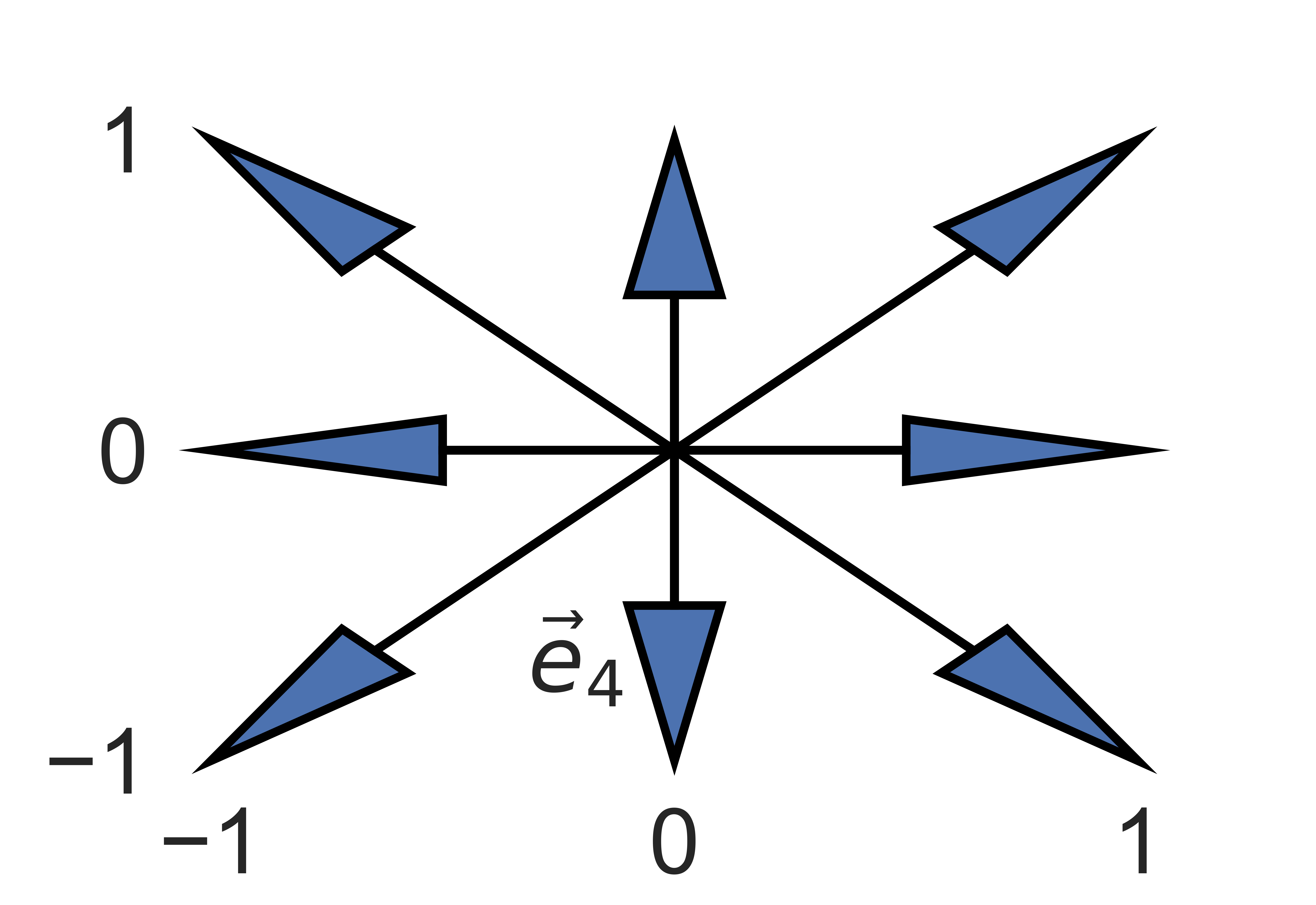 Schematic of 8 of the 9 nearest-neighbour lattice vectors in the standard D2Q9 lattice used in the two-dimensional version of the Lattice Boltzmann fluid dynamics computer simulation method. Ninth vector is zero vector.